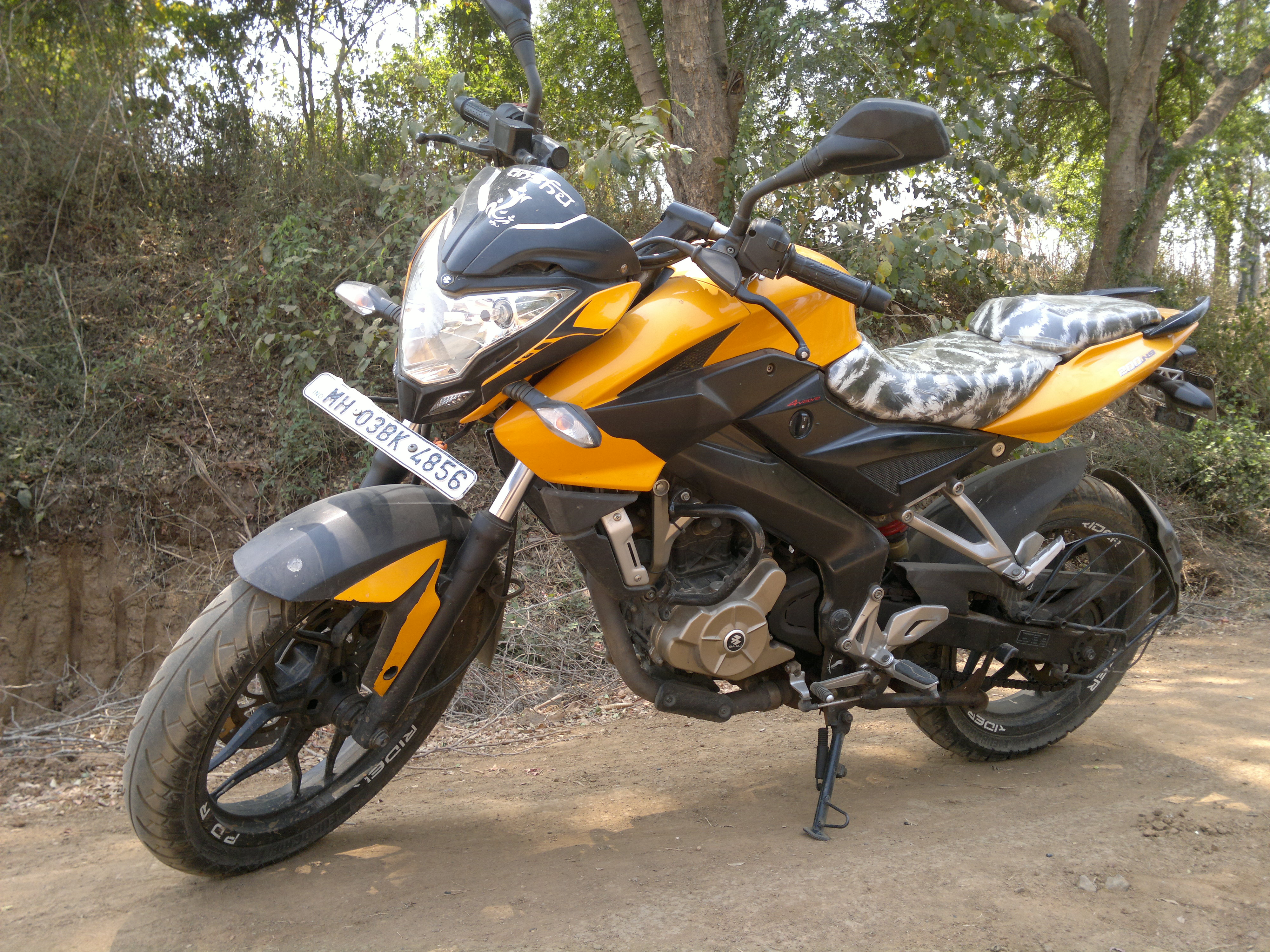 Bajaj Pulsar 200 NS is newly developed DTSi technology, which increased the power rating.